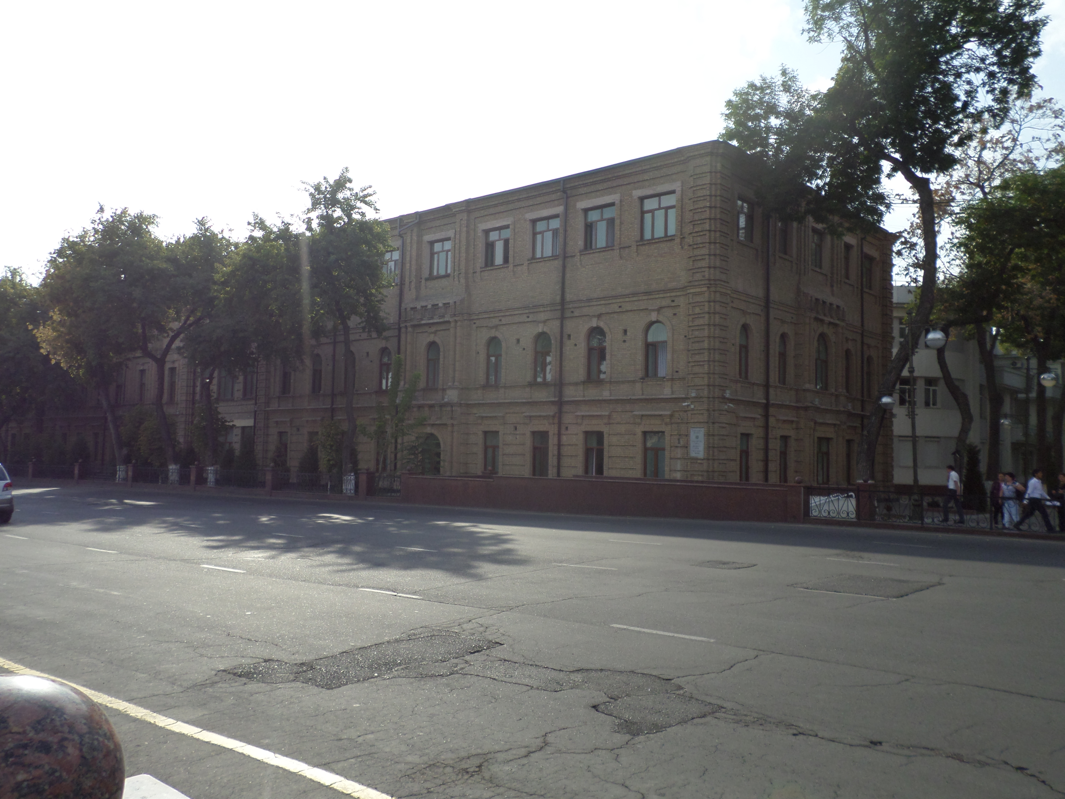 Women gymnasium